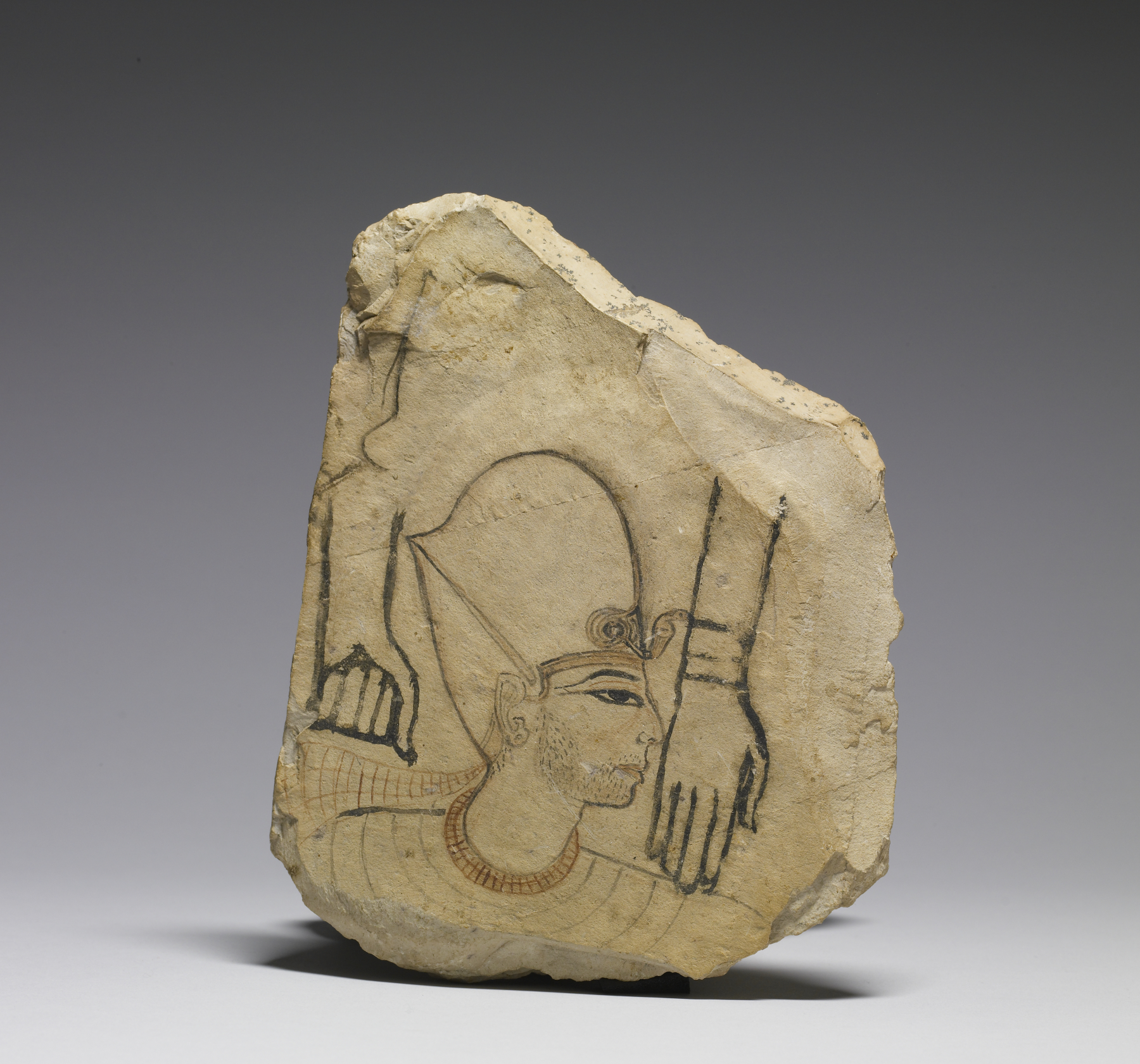 This sketch depicts a king wearing the "blue crown," a collar, and two strings of gold beads. His stubble beard is a sign of mourning. The features of the king make it likely that Seti I is represented. The elaborate execution of the royal image, which is without doubt the work of a master painter, differs from the depiction of the two hands. This sketch was probably a model for trainees, and was later reused for other training purposes by an experienced artist. It is interesting that the painter of the royal head has chosen the topic of a stubble-bearded king, which was not part of the official motifs.